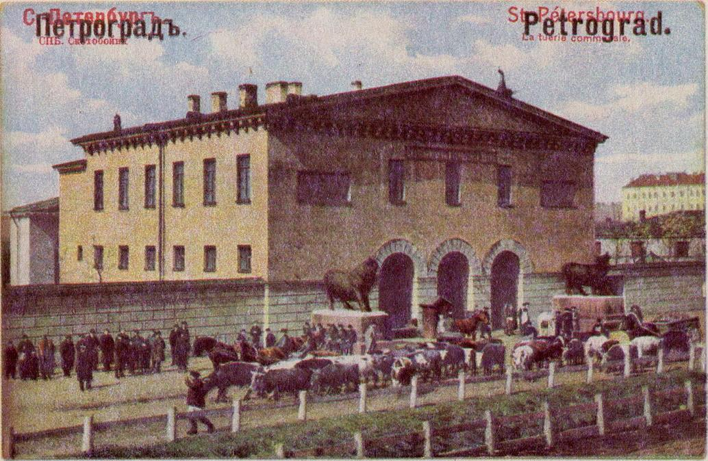 The slaughterhouse (aka „abattoir” or „tuerie”) in Petersburg, Russia. The architect of the building (1821-1825) is Joseph-Maria Charlemagne-Baudet, the Russian architect of the French origin (rus.: Иосиф Иосифович Шарлемань). The word „tuerie” in the inscription should not surprise, because it was widely used for such installations. Not long before that, in 1806 by the decree of Napoléon 5 tueries were created in Paris: 3 at the rive droite and 2 at the rive gauche (right and left shores) of the Seine river. The stamp 'Petrograd' across 'Peterburg' hints, that the postcard was printed before 1914, when the city was renamed in the friendly Russian manner